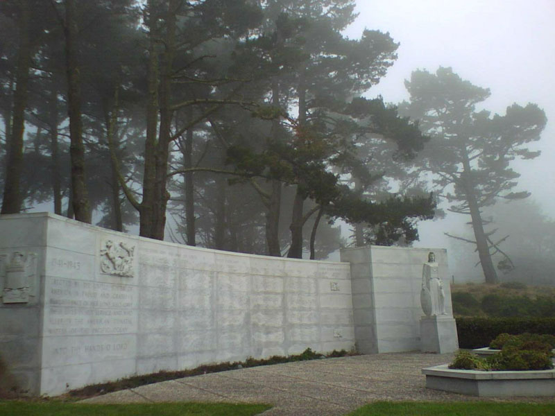 West Coast Memorial, San Francisco, USA